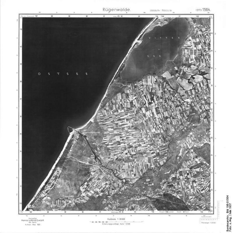 Rügenwalde Information added by Wikimedia users.